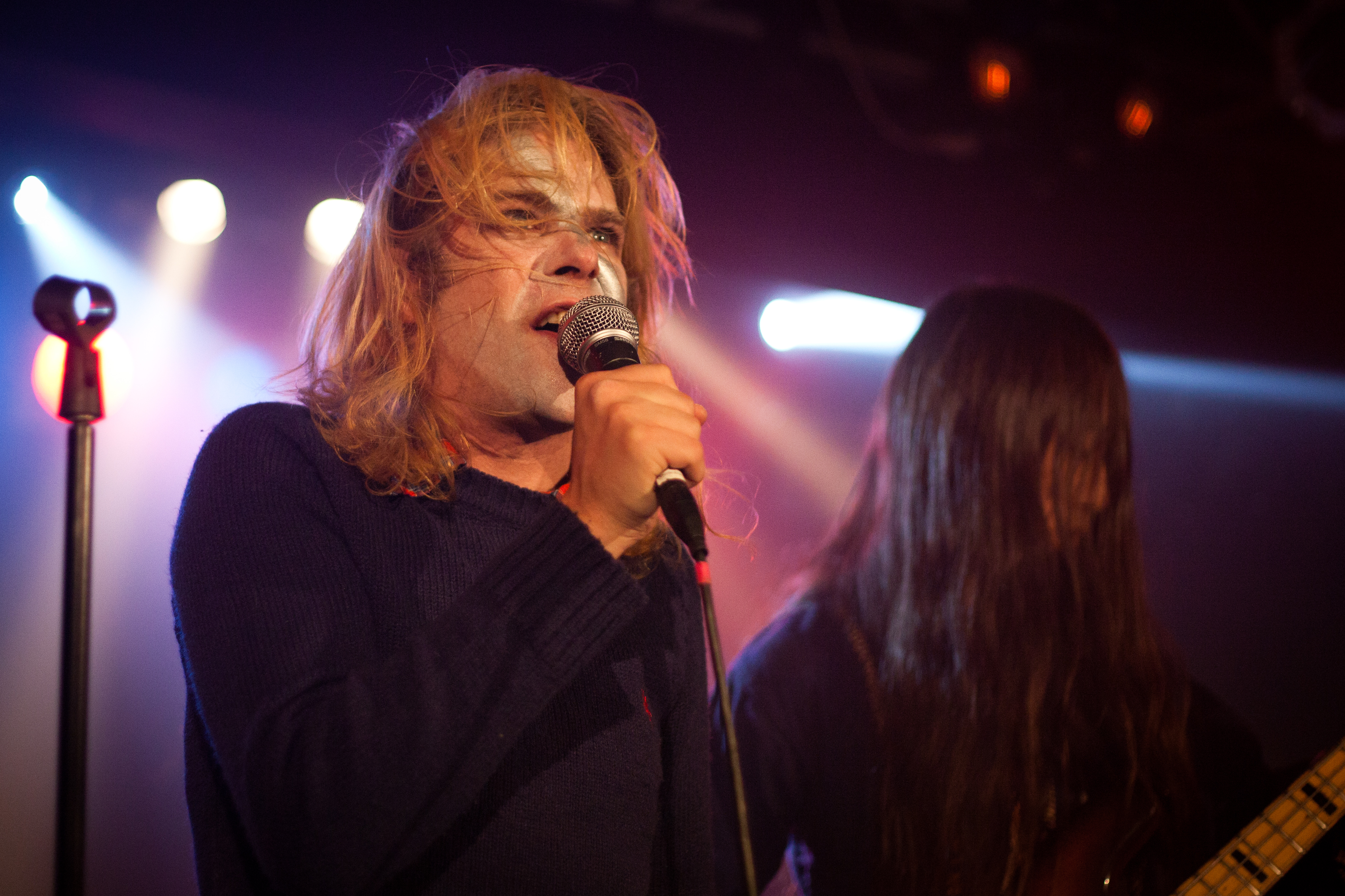 Ariel Pink of Ariel Pink's Haunted Graffiti performing at Debaser in Stockholm, Sweden